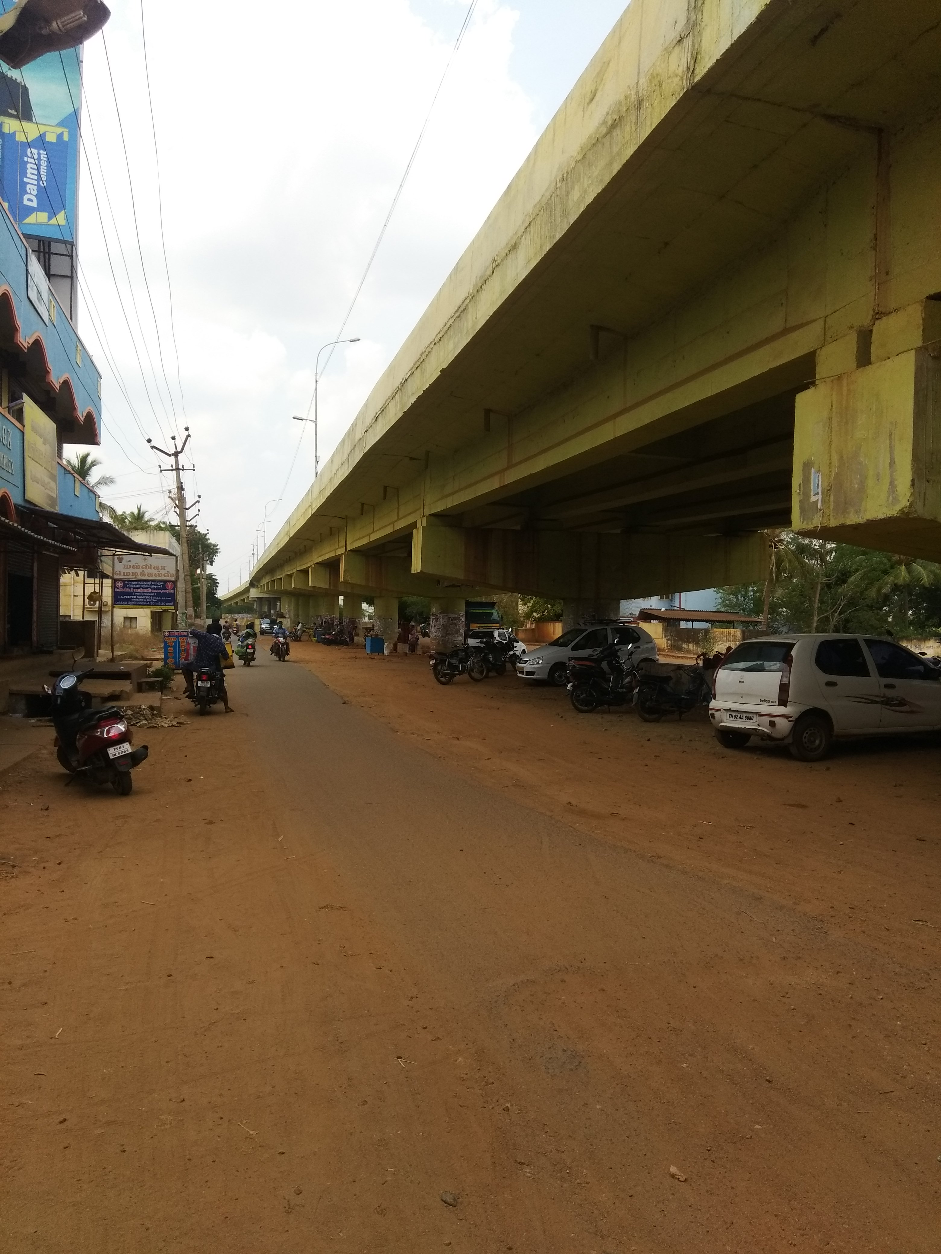 Railway Bridge in sivagangai municipality